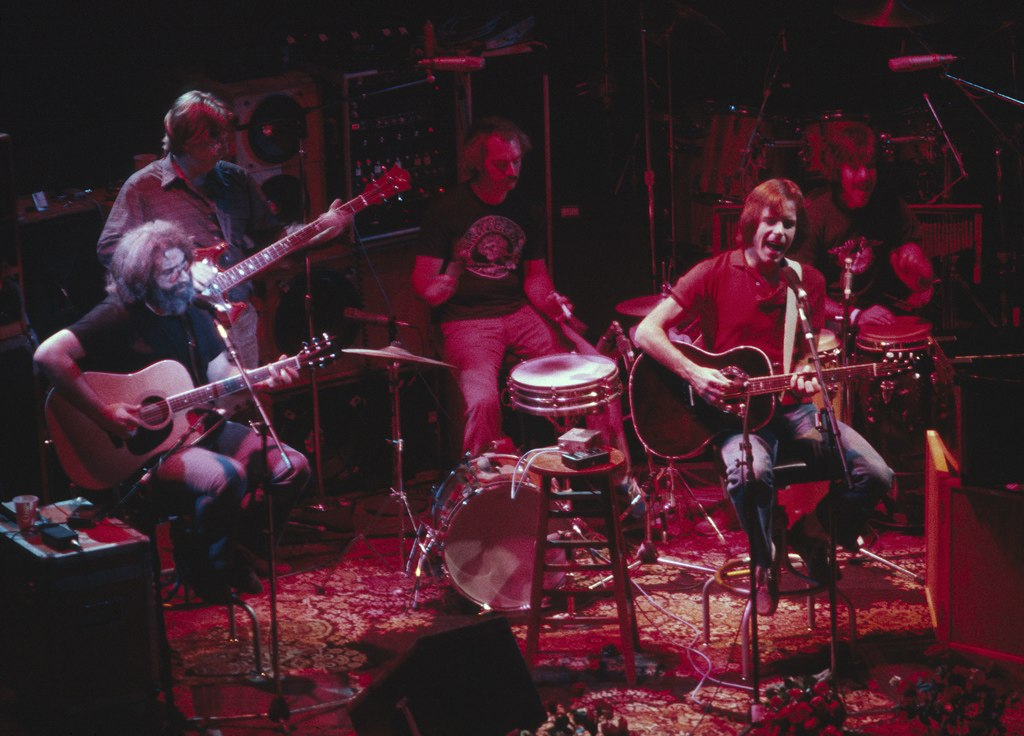 Grateful Dead at the Warfield Theatre in San Francisco, October 9, 1980.